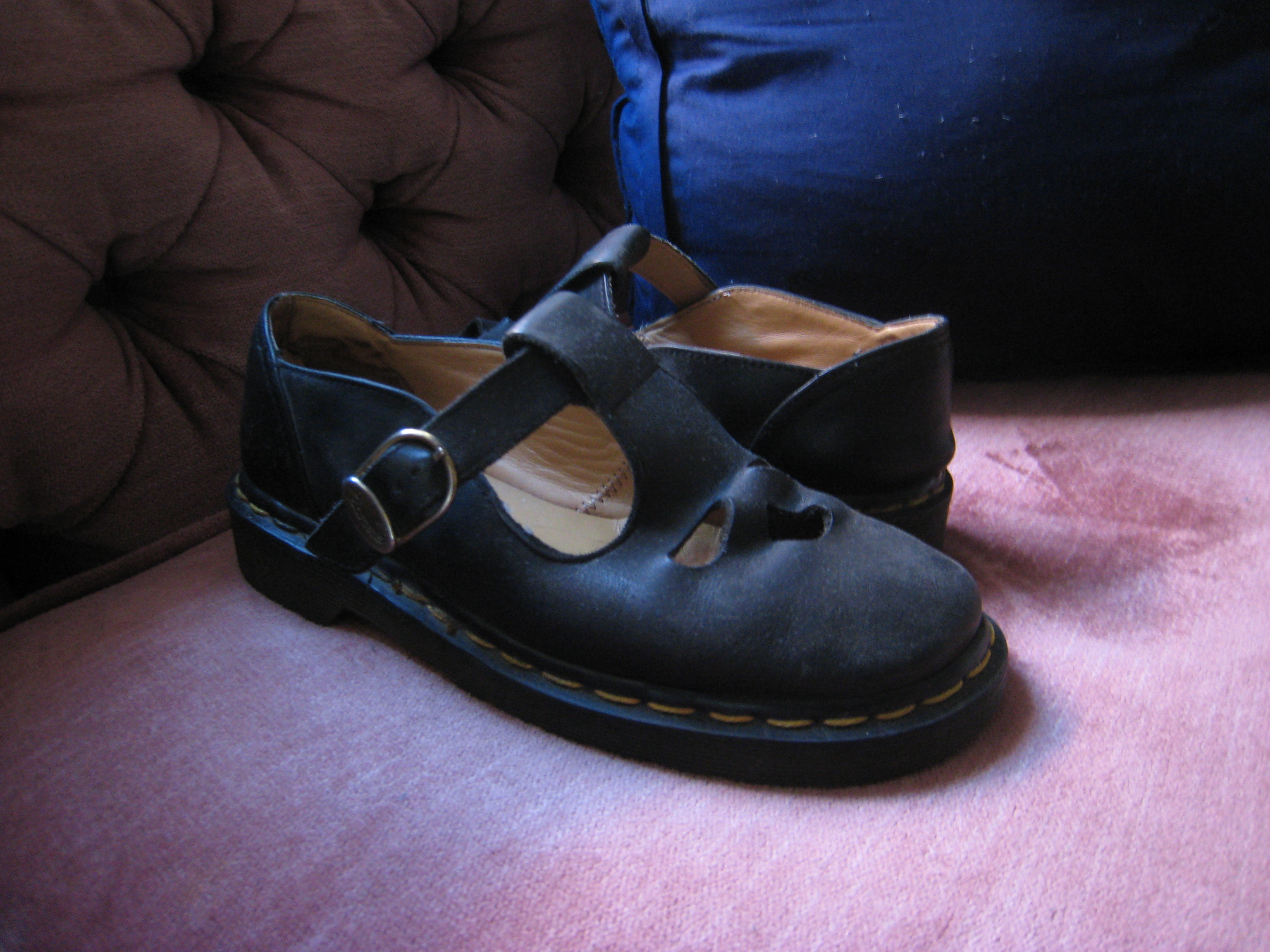 About a decade ago (when I was 14) I found these at a Marshall's store for about $15. I nearly didn't buy them, but I'm glad I did because they are the comfiest, most long-lasting shoes ever. I plan on wearing them forever.